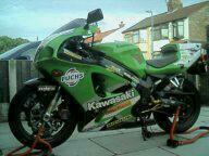 The contributors own Kawasaki ZX-7RR. Extensively modified by the contributor this model is capable of speeds in excess of 180mph The contributor released this image to wikipedia in July 2004 without reserving any rights. --Evb-wiki 22:56, 28 February 2007 (UTC)